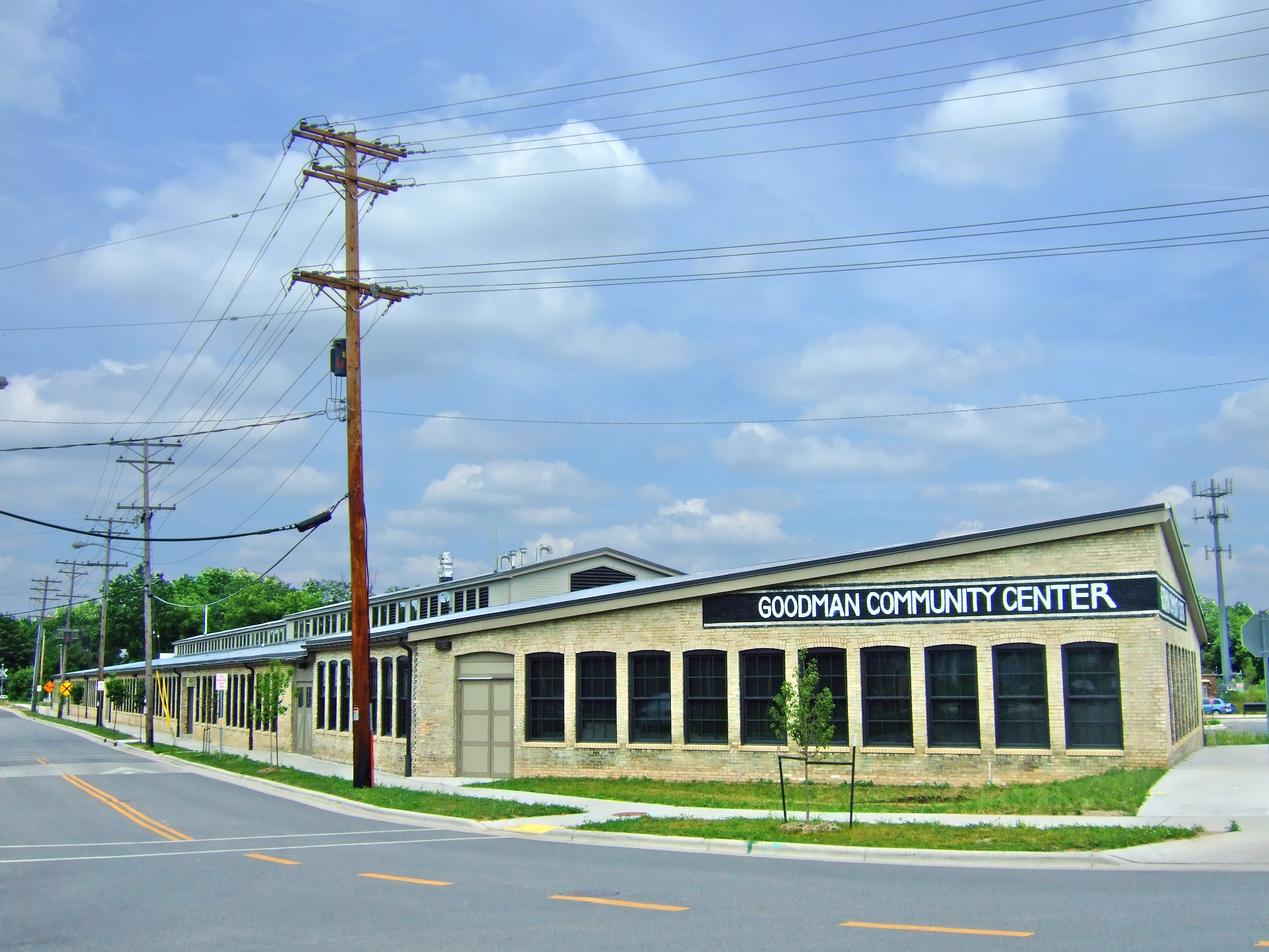 The Steinle Turret Machine Company at 149 Waubesa Street in Madison, Wisconsin, was initially a small factory constructed by the American Shredder Corporation in 1903. In 1906, the building was purchased by the Steinle Turret Machine Company and expanded greatly over the following 14 years. The building was purchased by the Atwood Community Center in 2005 and added to the National Register of Historic Places in 2007.